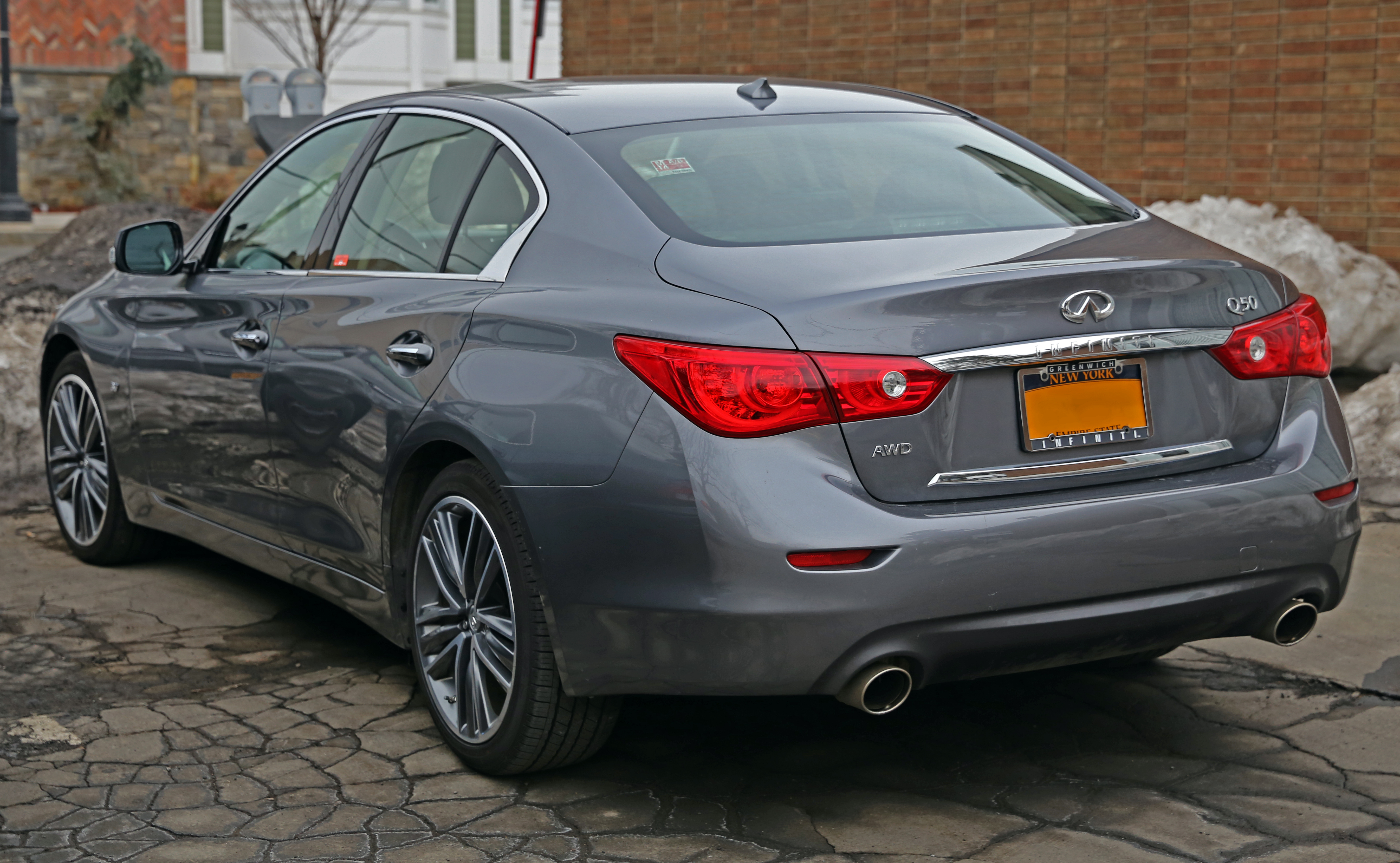 A 2014 Infiniti Q50 3.7 AWD.